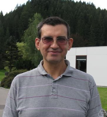 Photo of Luigi ambrosio